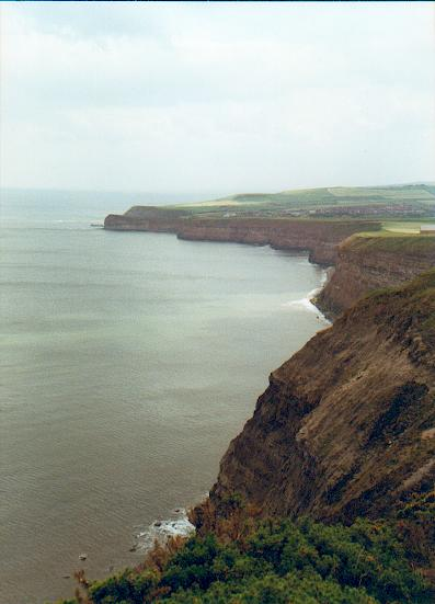 Boulby Cliff. Looking east from near the top of Boulby Cliff - the highest point on the east coast of England.